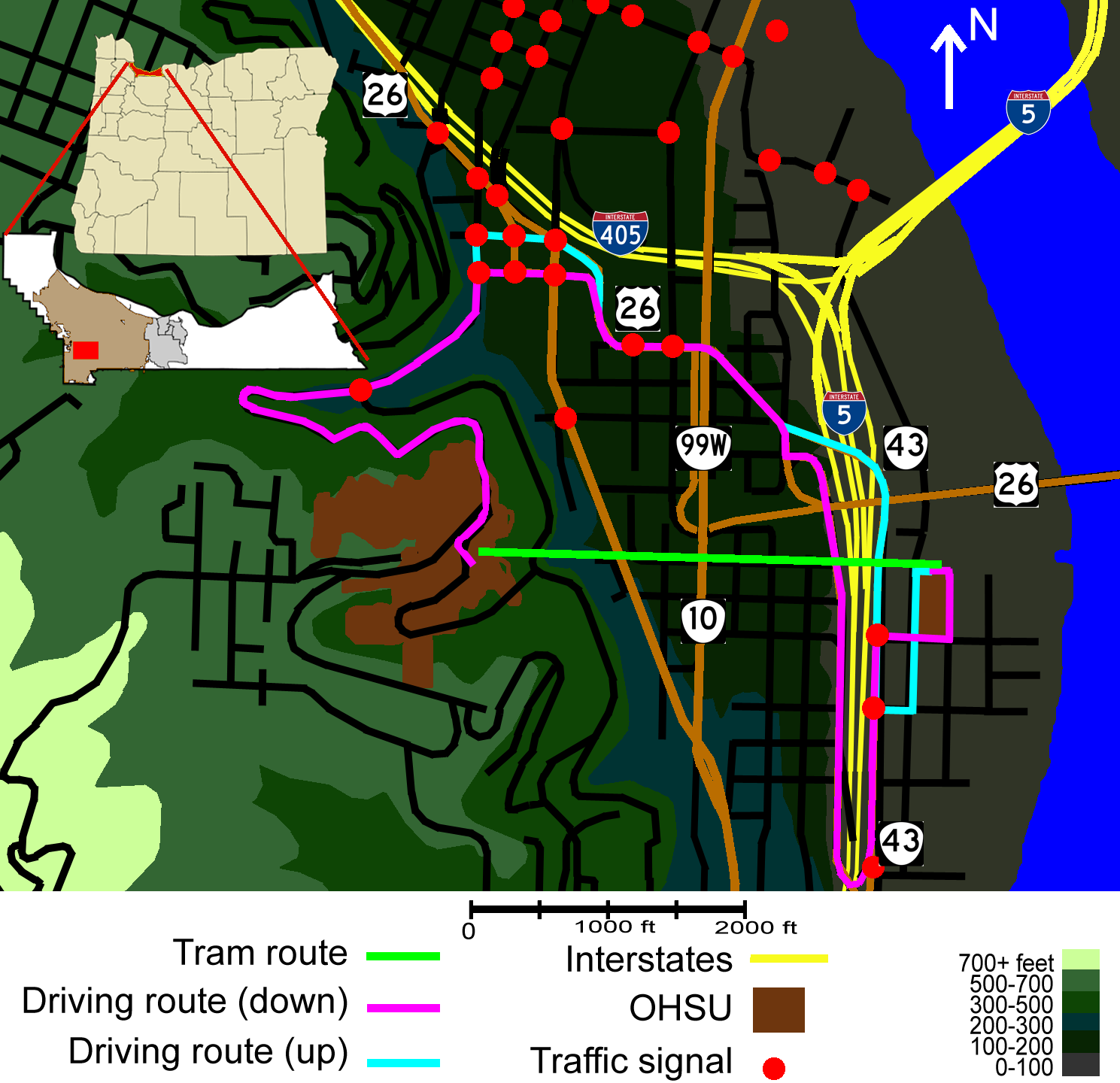 Diagram of Portland Aerial Tram route contrasted with surface transport routes. This revision cleans up some highway icons, and places Hwy 10 on the correct highway, and attempts to clarify the inset's context. Barbur Blvd north of the intersection with Front Ave. apparently has no highway designation.